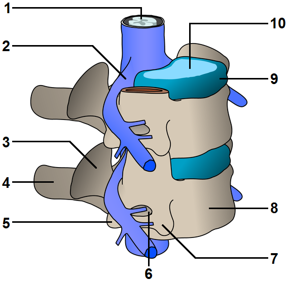 Numbered version of ACDF_oblique_blank.png